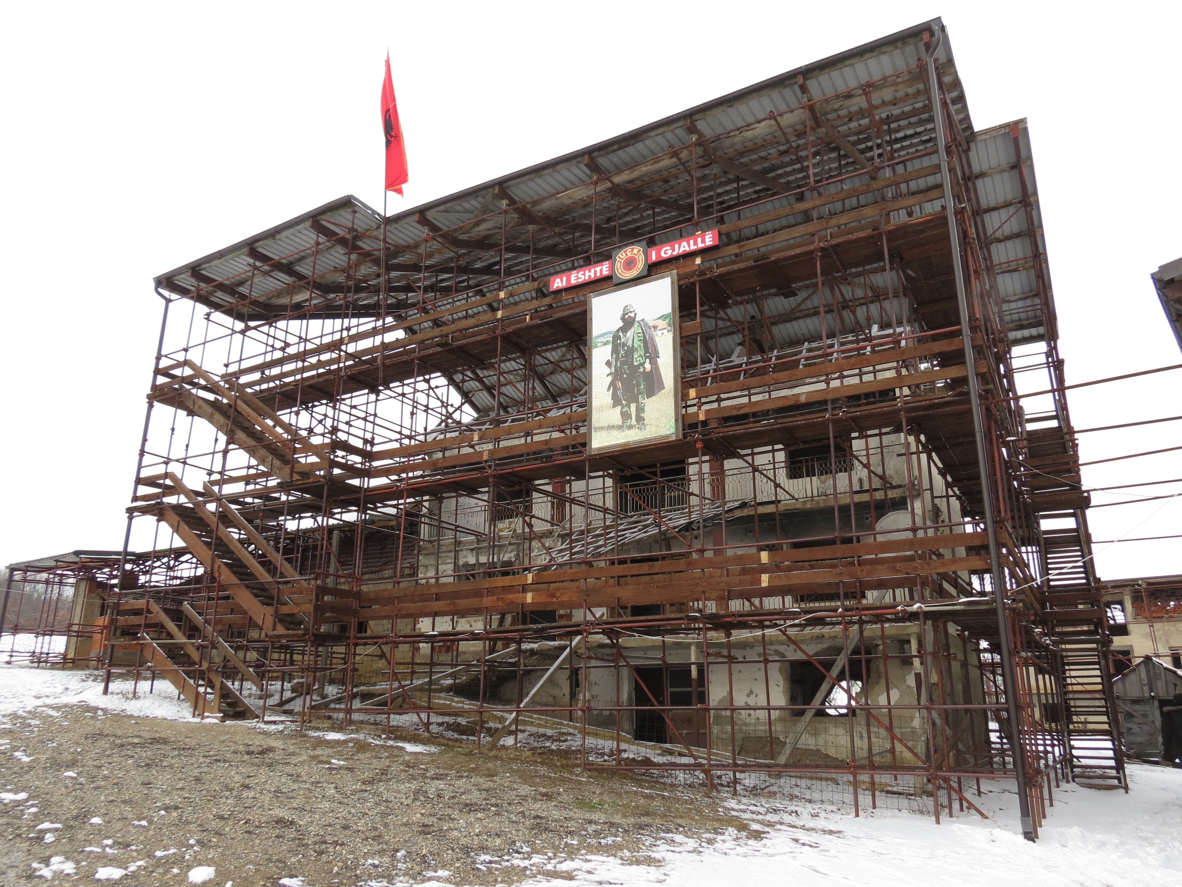 Adem Jashari Memorial Complex in Prekaz, Kosovo, with the house in which Adem Jashari and more than 60 other people were murdered in the Attack on Prekaz (1998).